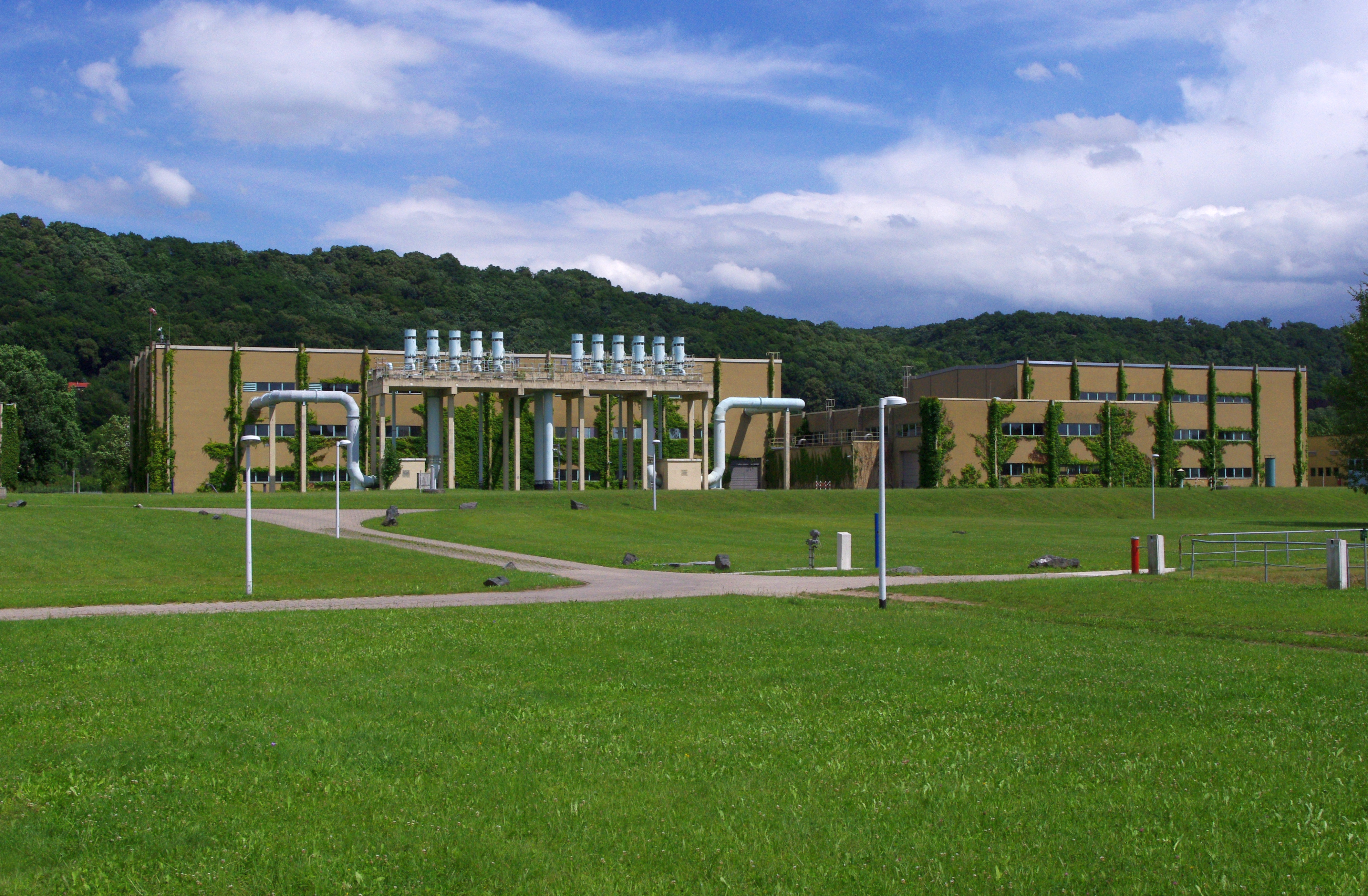 filterhouses and watercascades (for ventilation) at the water purification plant dresden hosterwitz